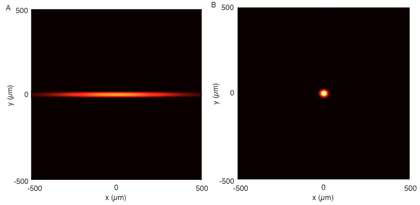 A comparison of the electron beam profile between the ALS and ALS-U.